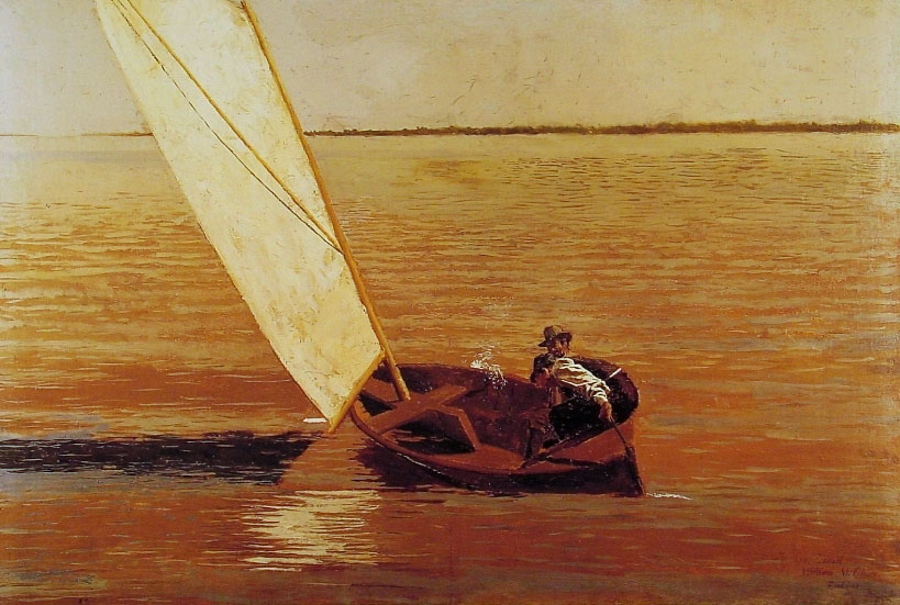 Thomas Eakins's art